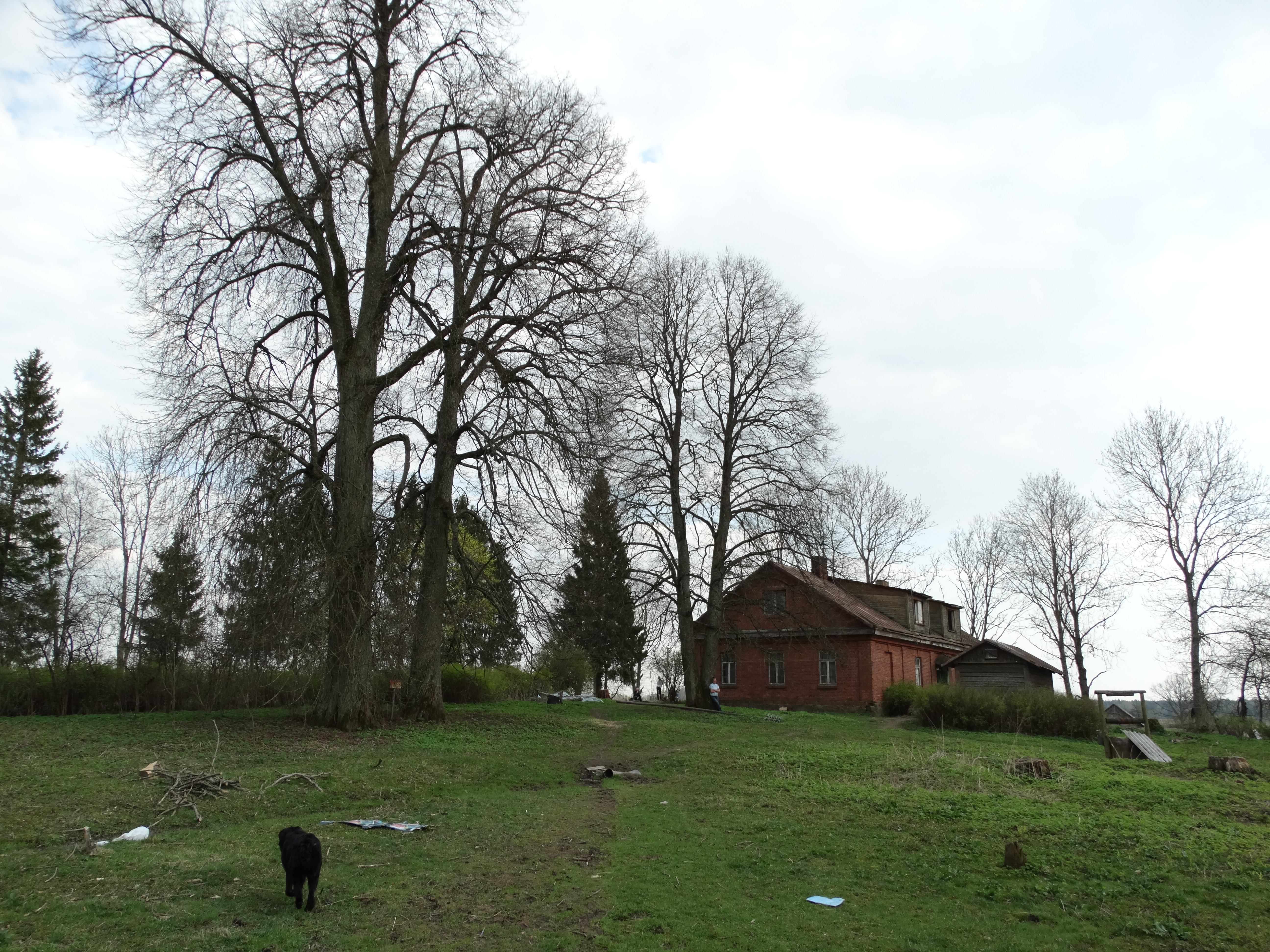 Upninkai linden trees, Jonava, Lithuania